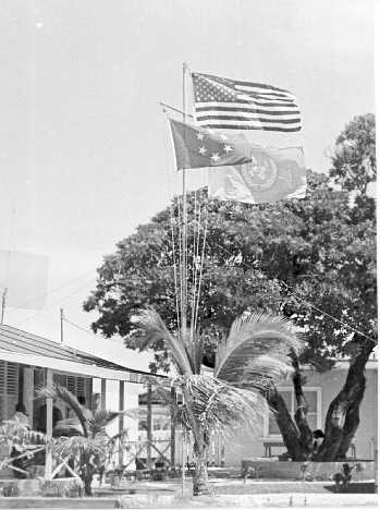 UN, TTPI and USA Flags